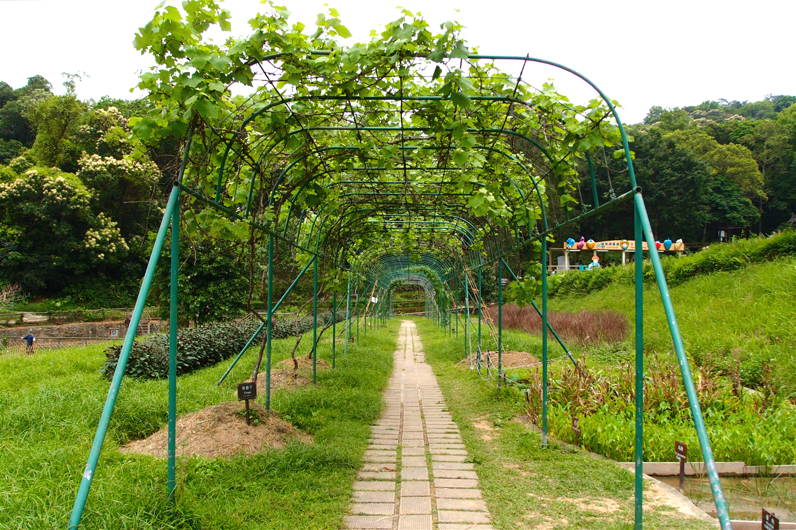 婚紗攝影的熱門地點